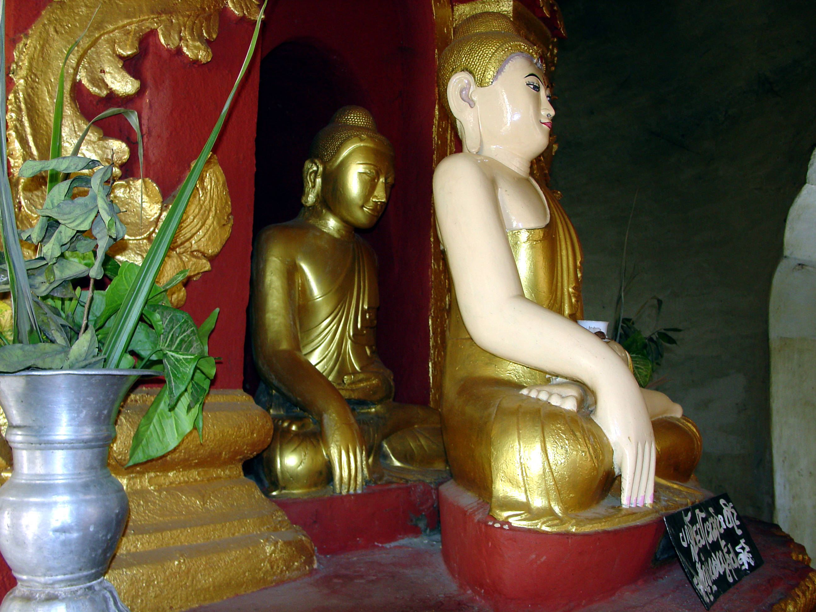 When viewed from the front, the gilded image would be nearly hidden behind the polychrome image. The gilded image is the earlier of the two.